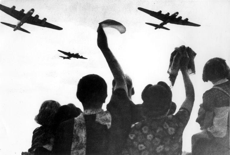 Nationaal Archief / Spaarnestad Photo, SFA001015927 Tweede Wereldoorlog. Geallieerde vliegtuigen boven Nederland bij bevrijding. Zwaaiende mensen. Nederland, 1945. World War II. Liberation of Holland. Dutch people waving at allied planes. The Netherlands, location unknown, 1945. Collectie Spaarnestad Voor meer informatie en voor meer foto’s uit de collectie van Spaarnestad Photo, bezoek onze Beeldbank: U kunt ons helpen onze kennis van de fotocollecties te verrijken door tags en commentaren toe te voegen. Herkent u mensen of locaties of heeft u een bijzonder verhaal te vertellen bij één van de foto’s, laat dan een reactie achter (als u ingelogd bent bij Flickr) of stuur een mailtje naar: You can help us gain more knowledge on the content of our collection by simply adding a comment with information. If you do not wish to log in, you can write an e-mail to